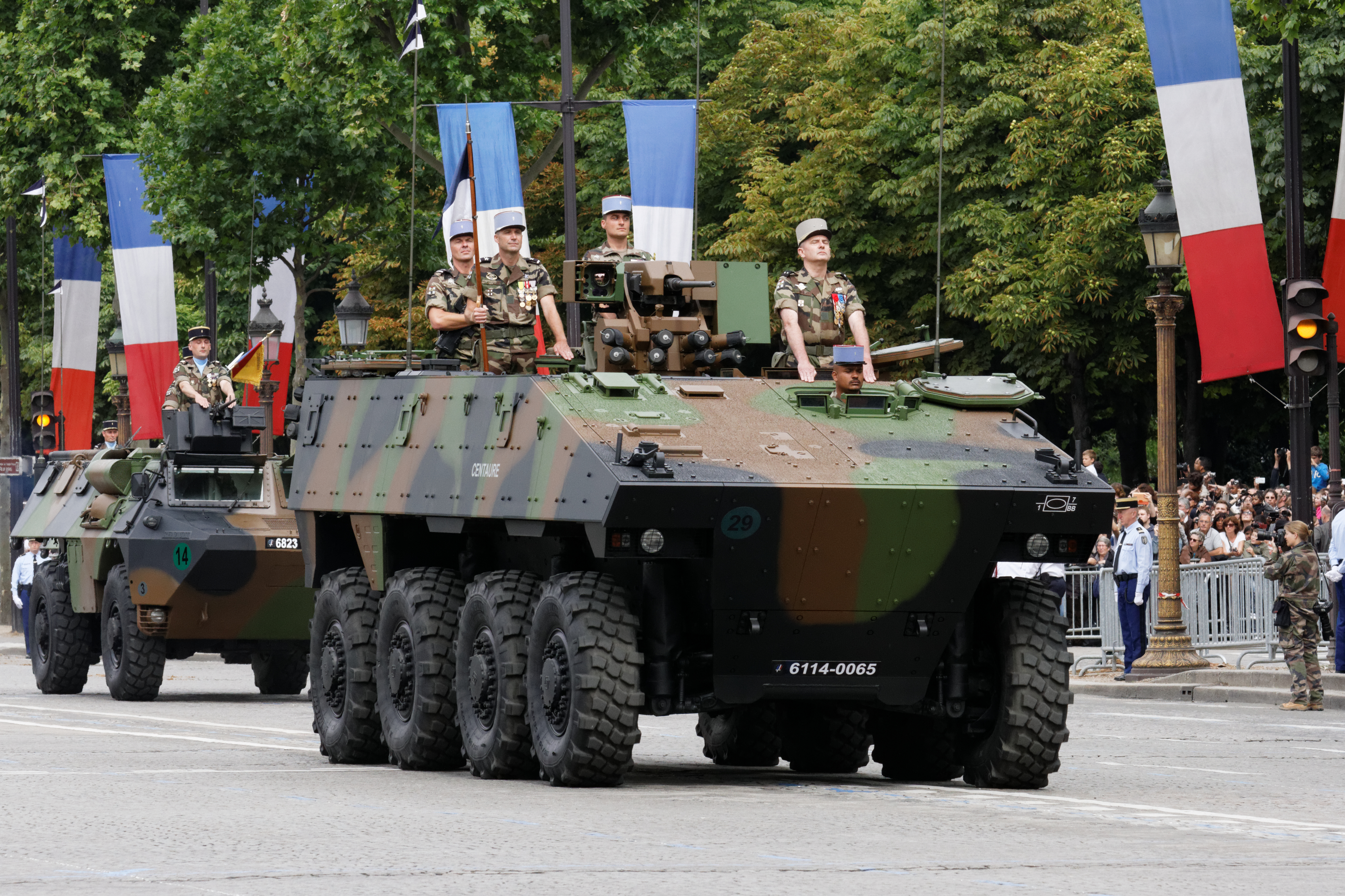 VBCI PCP of the 7th Armoured Brigade at the Bastille Day 2014 military parade on the Champs-Élysées in Paris.